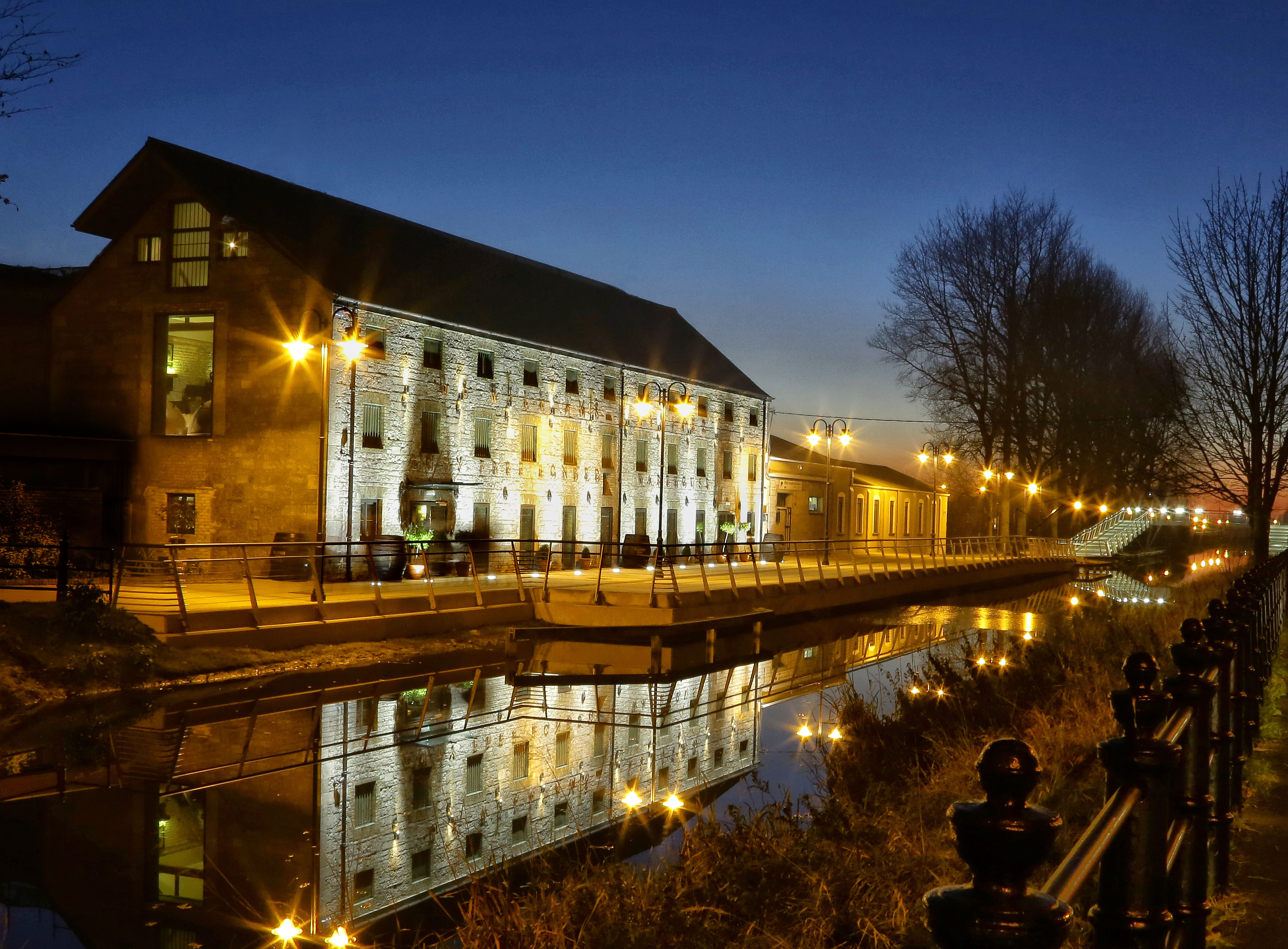 Exterior image of Tullamore D.E.W. Visitor Centre at night.